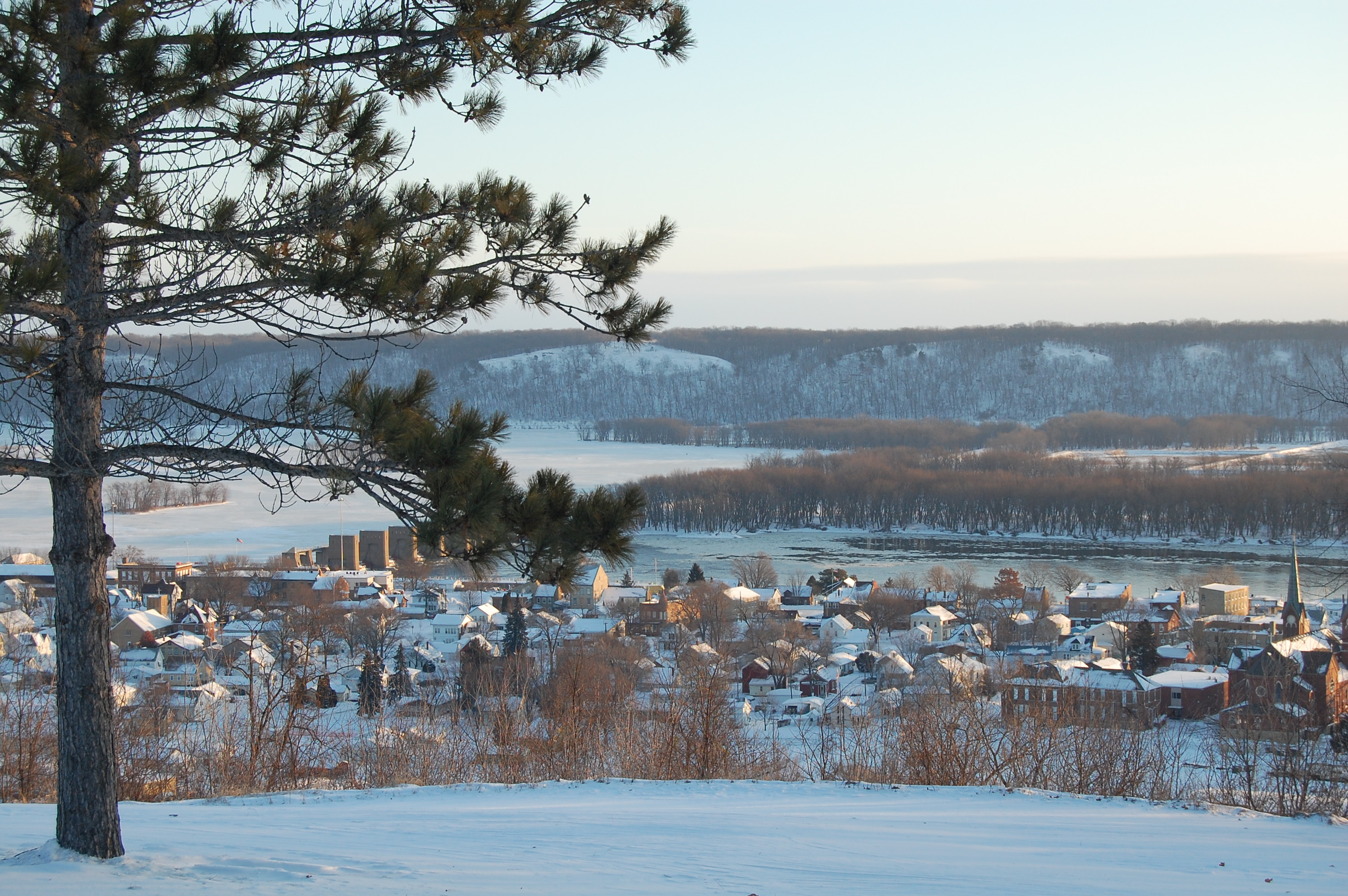 Guttenberg, Iowa, under a fresh blanket of snow.